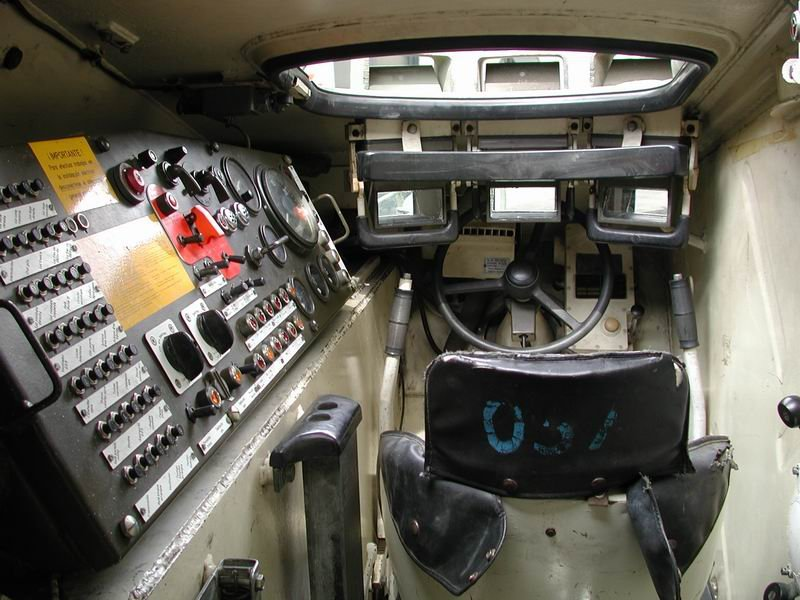 TAM Tank commands